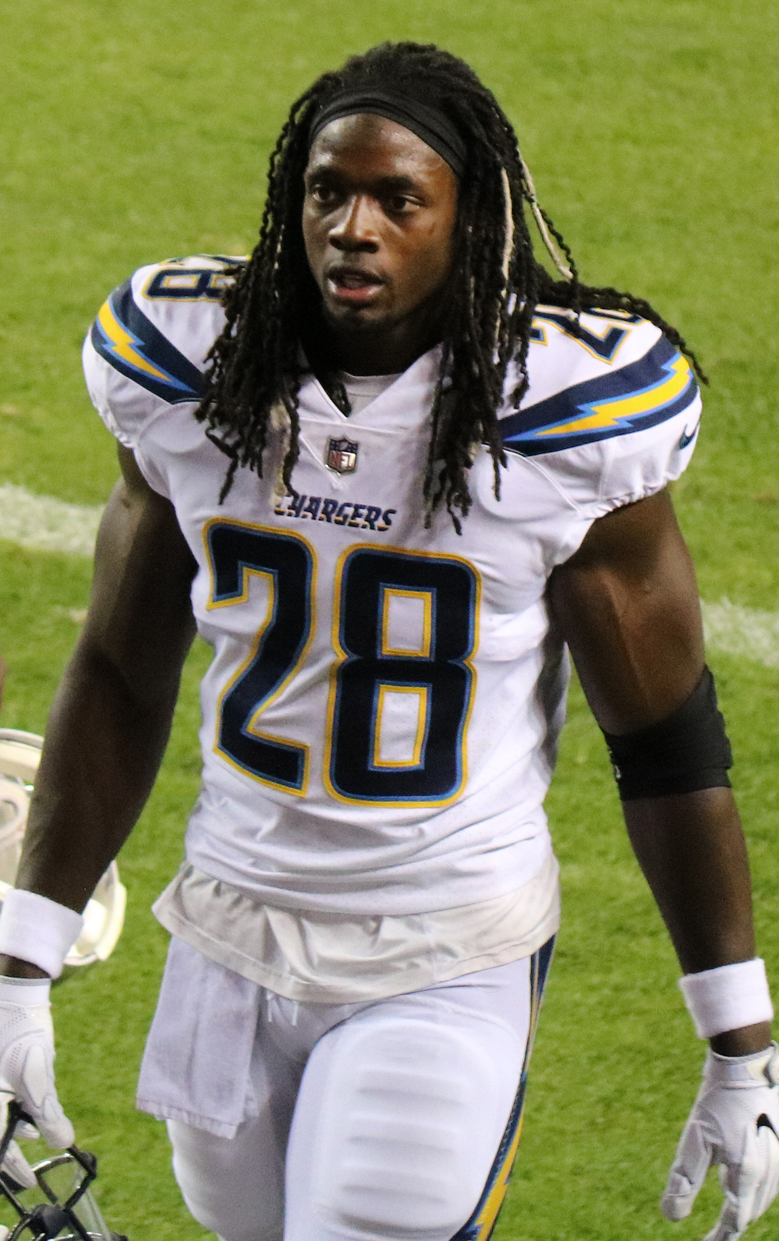 Melvin Gordon, a player on the National Football League.